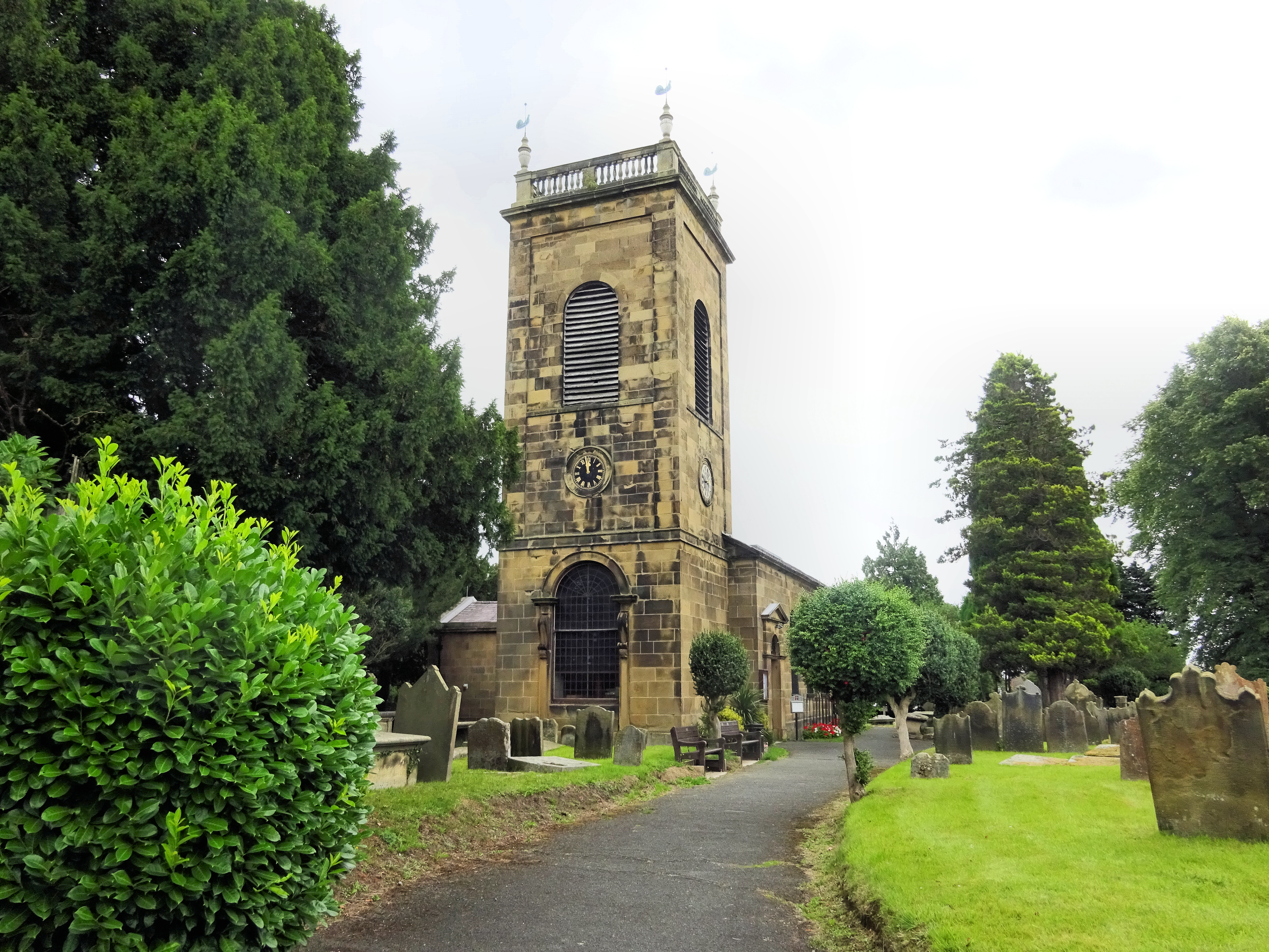 Church of SS Marcella and Deiniol: Grade II* Listed Building in Marchwiel, Wrexham, Wales.